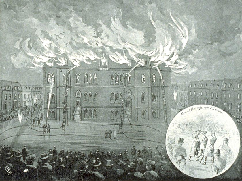 Lithograph of fire at High School of Montreal, Peel Street, Montreal, on November 28, 1890